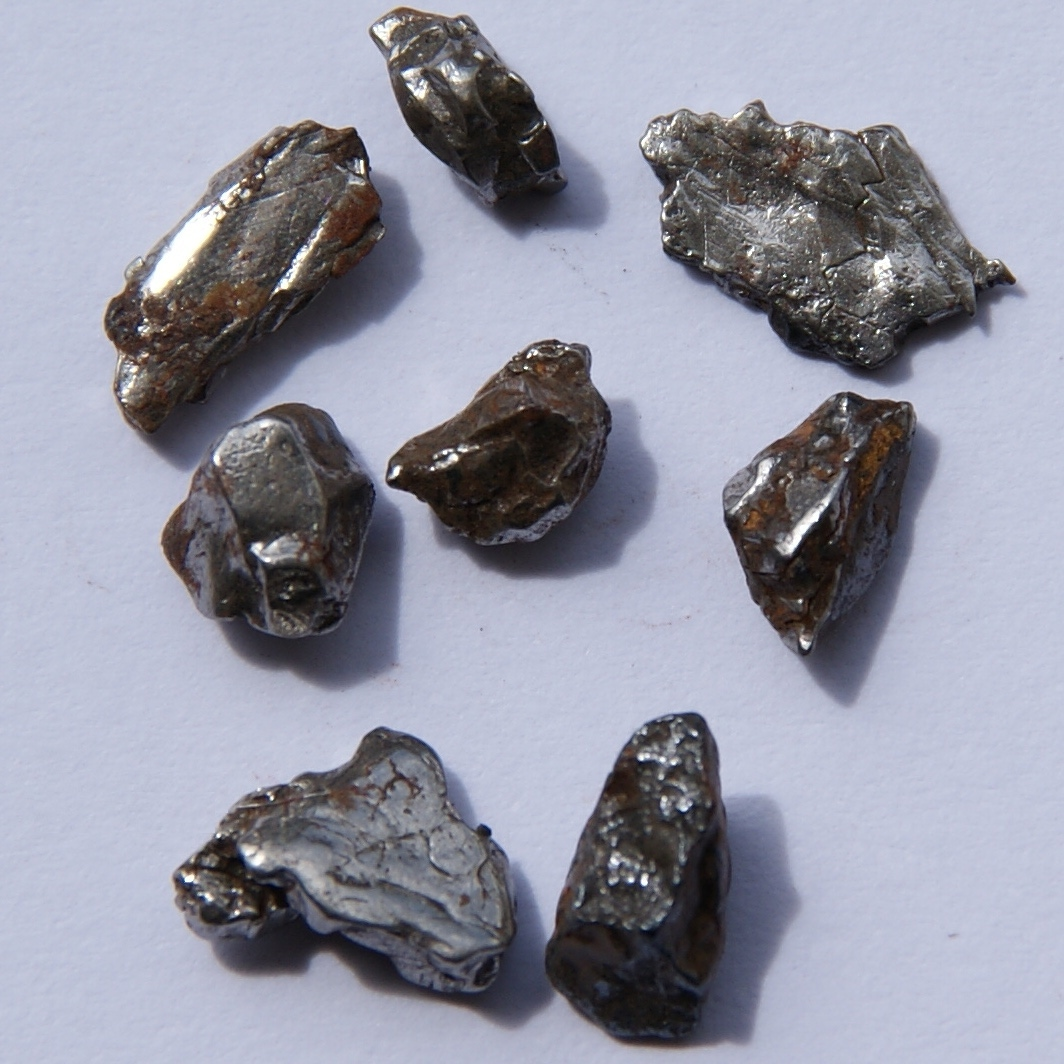 Fragments of the Nantan iron meteorite, 4 - 8 mm size.